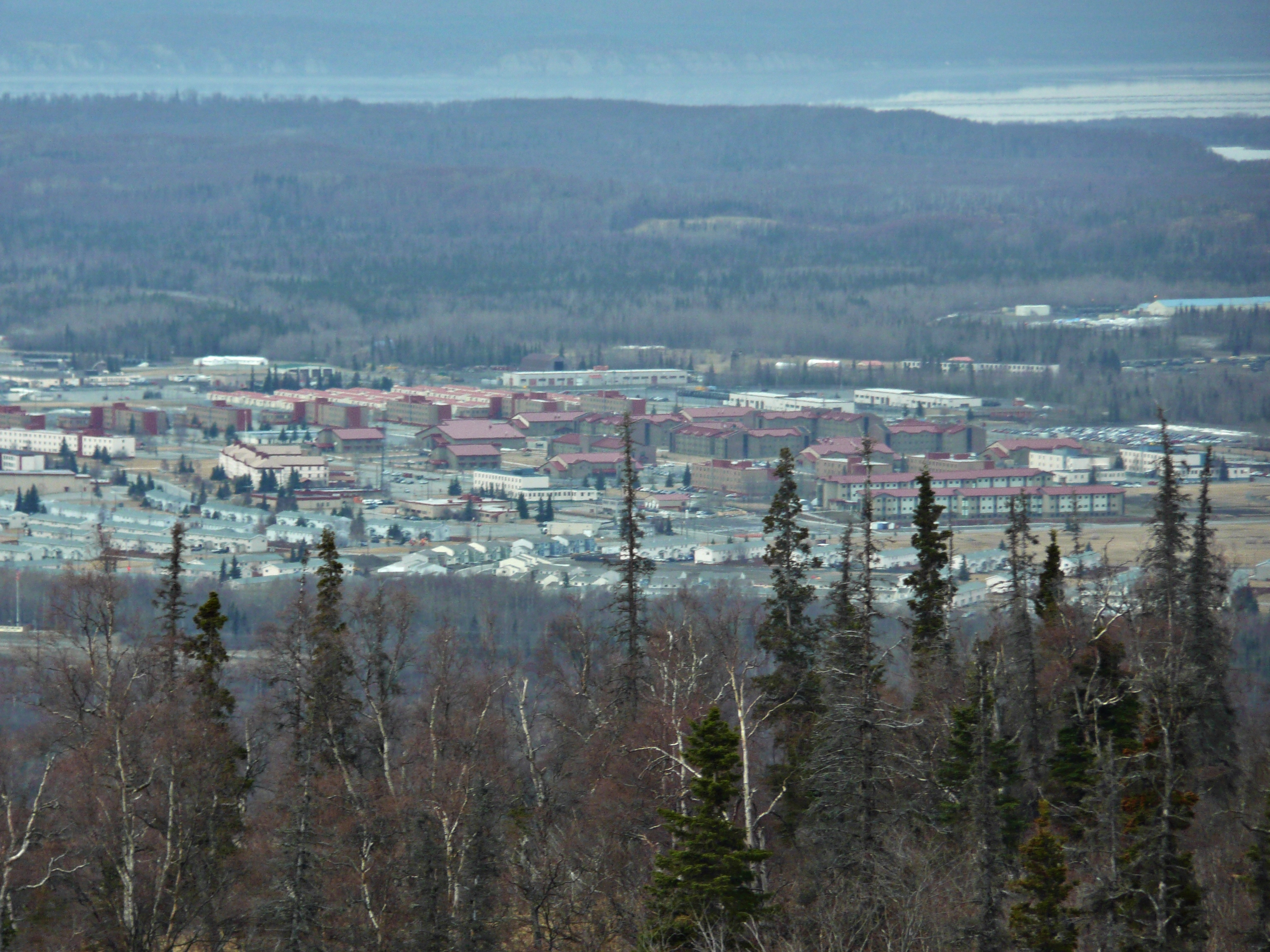 The Fort Richardson army post in Anchorage, Alaska, now part of Joint Base Elmendorf-Richardson, as viewed from above at nearby Arctic Valley.